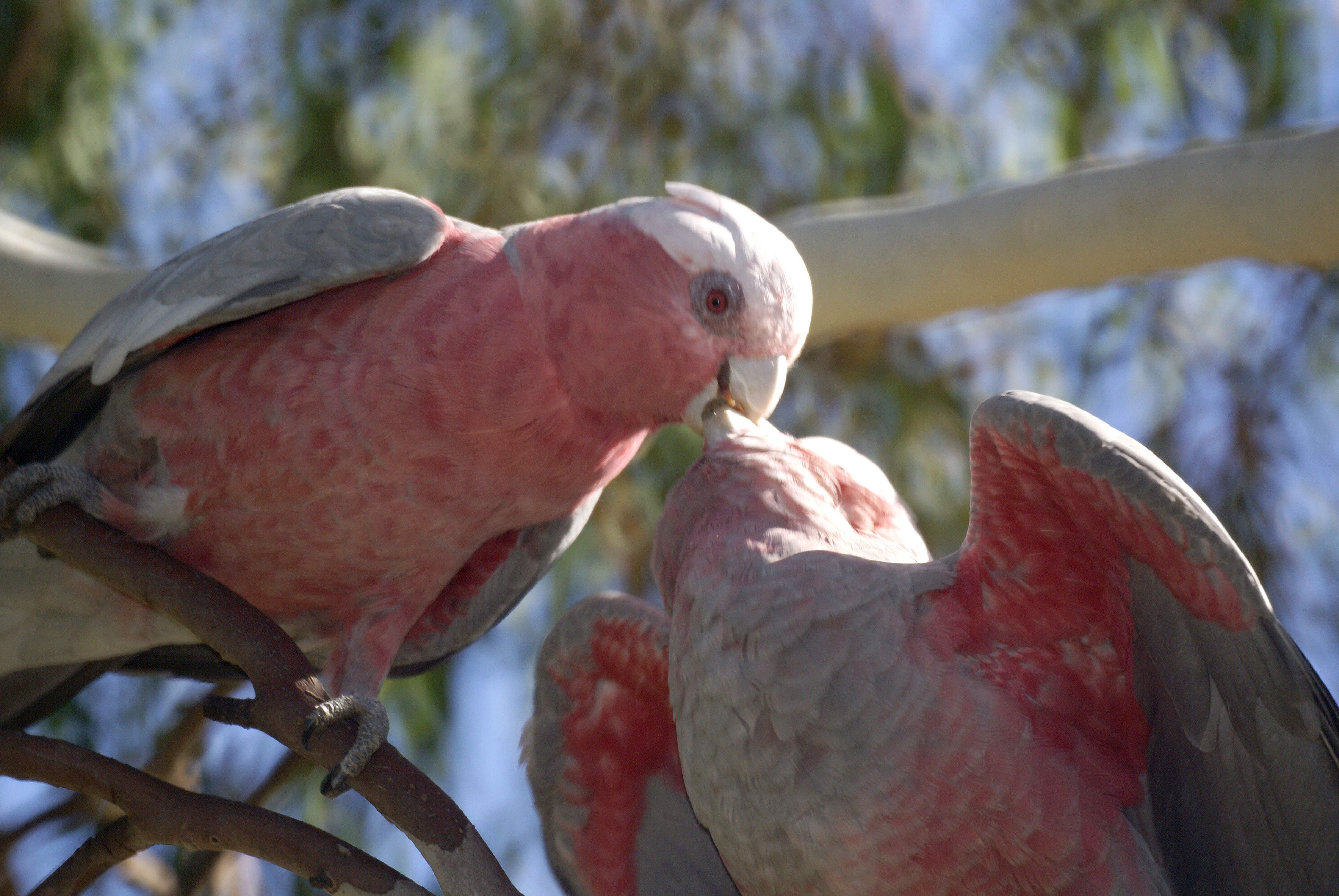 An adult female Galah feeding a juvenile (also known as the Rose-breasted Cockatoo, Galah Cockatoo, and Roseate Cockatoo) in Wamboin, NSW, Australia.